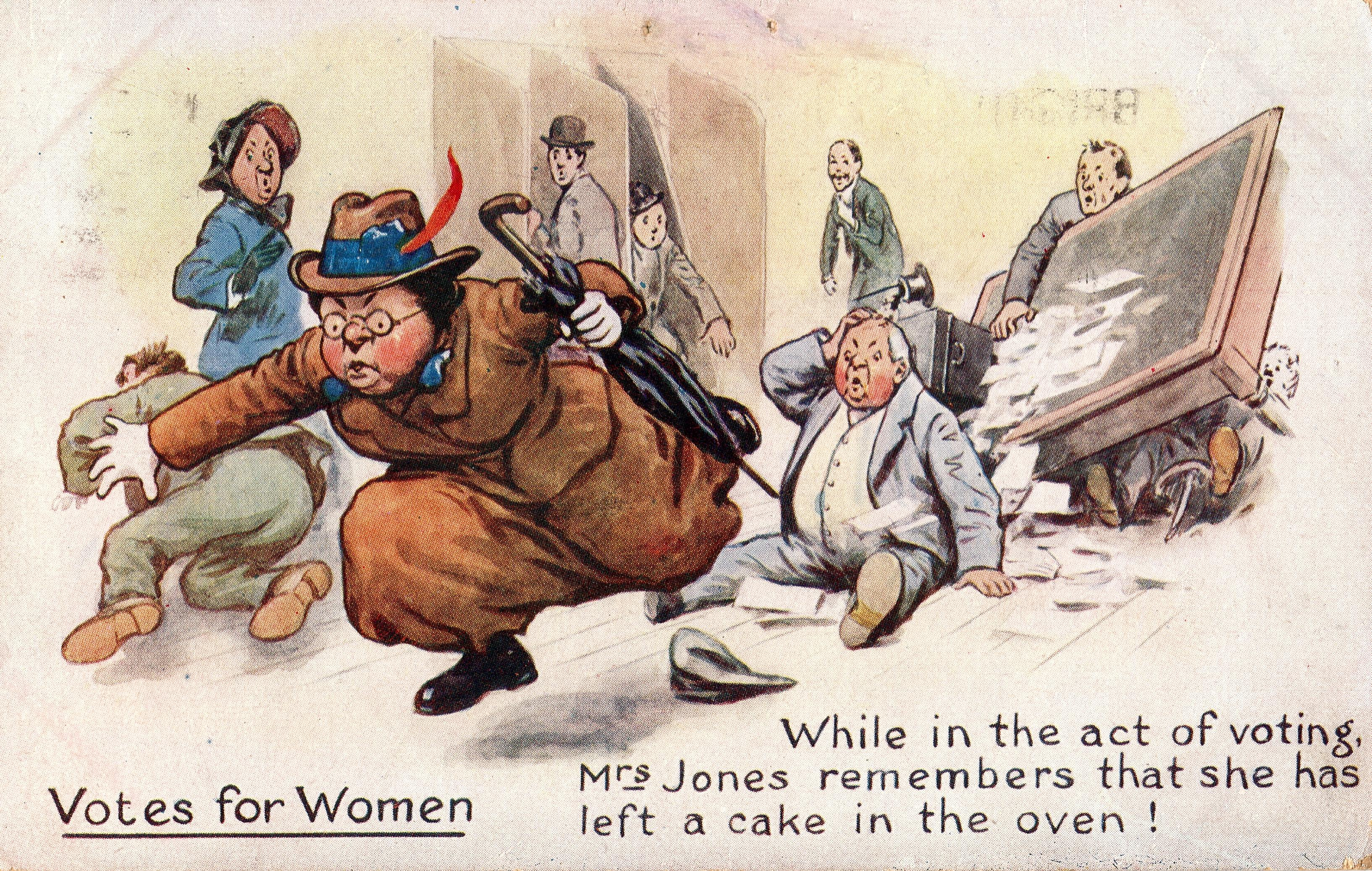 Anti-suffrage postcard- While in the act of voting, Mrs Jones remembers that she has left a cake in the oven twl 2004 1011 47